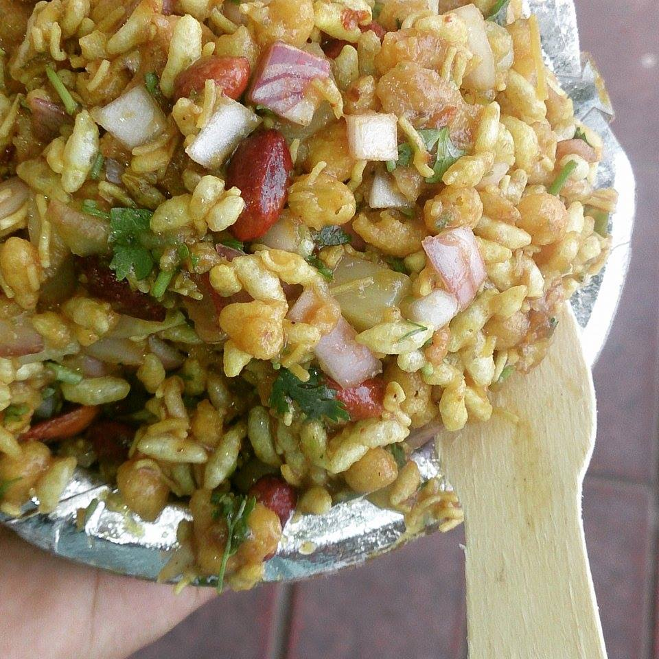 Taken outside a popular bhelpuri vendor in Delhi.